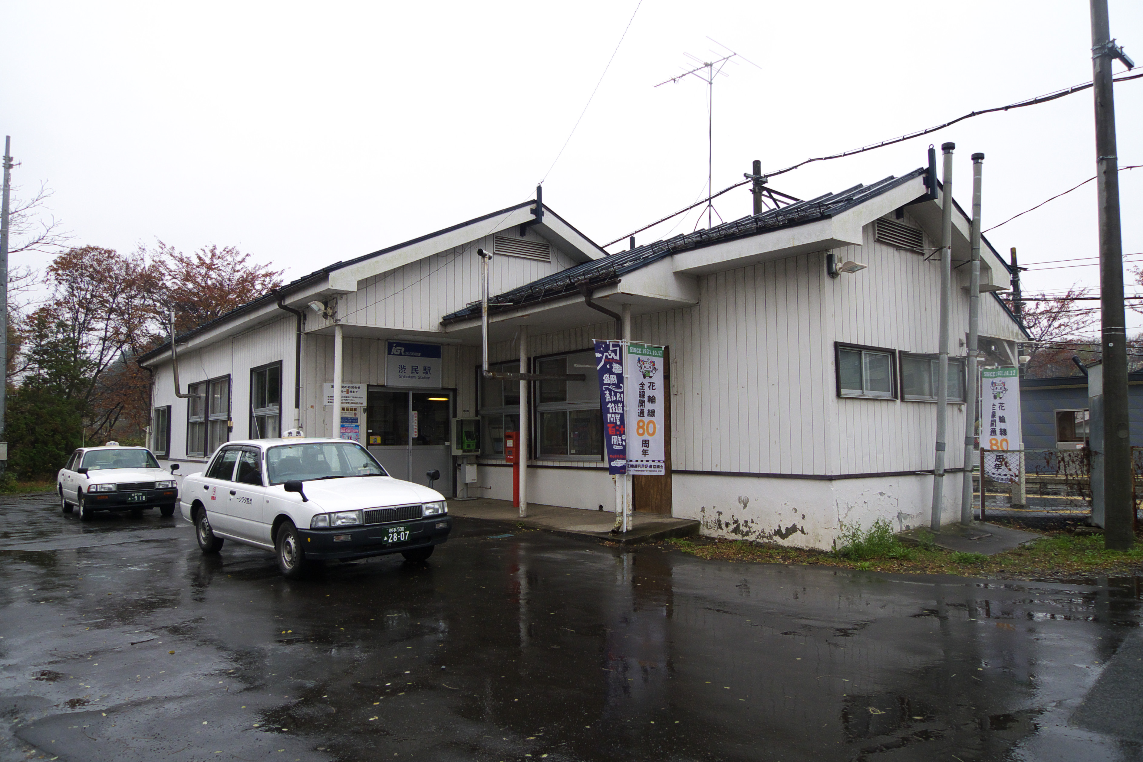 IGR Iwate Galaxy Railway Shibutami Station in Morioka City, Iwate Prefecture, Japan